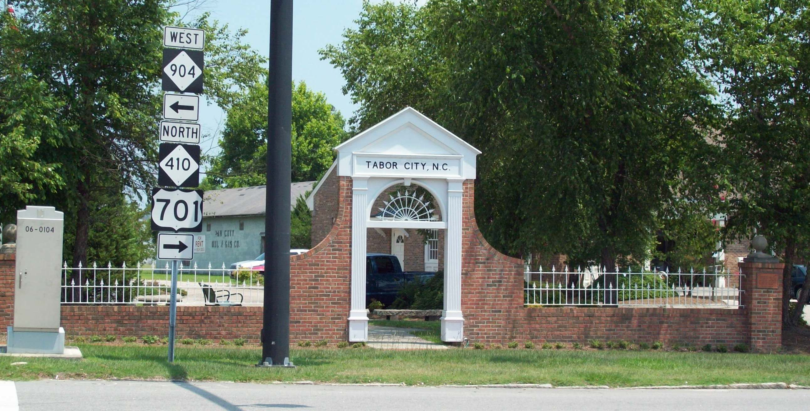 Tabor City NC Welcome Arch, June 2010